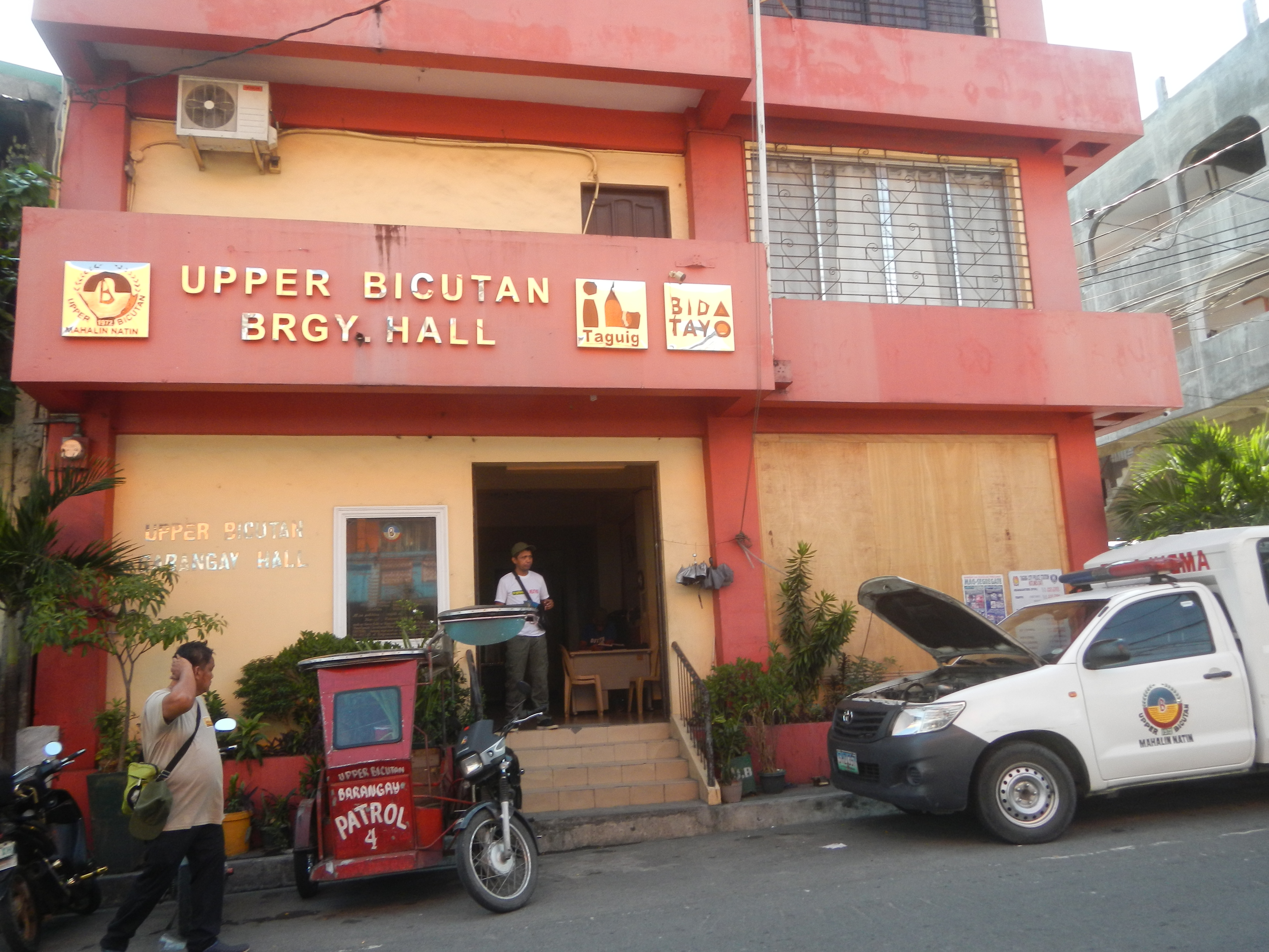 Saint Joseph Parish Church (Purok 5, Upper Bicutan, Taguig City) Block 63 Lot 14 Roman Catholic Diocese of Pasig Upper Bicutan, Taguig City Legislative district of Taguig City Legislative district of Pateros-Taguig City Barangay Upper Bicutan Upper Bicutan 14°29'52"N 121°2'59"E Taguig City (Note: Judge Florentino Floro, the owner, to repeat, Donor Florentino Floro of all these photos hereby donate gratuitously, freely and unconditionally all these photos to and for Wikimedia Commons, exclusively, for public use of the public domain, and again without any condition whatsoever).